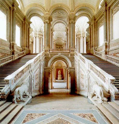 Photograph of the Royal Staircaise at the Caserta Palace (Reggia di Caserta), one of the palace's most admired features.